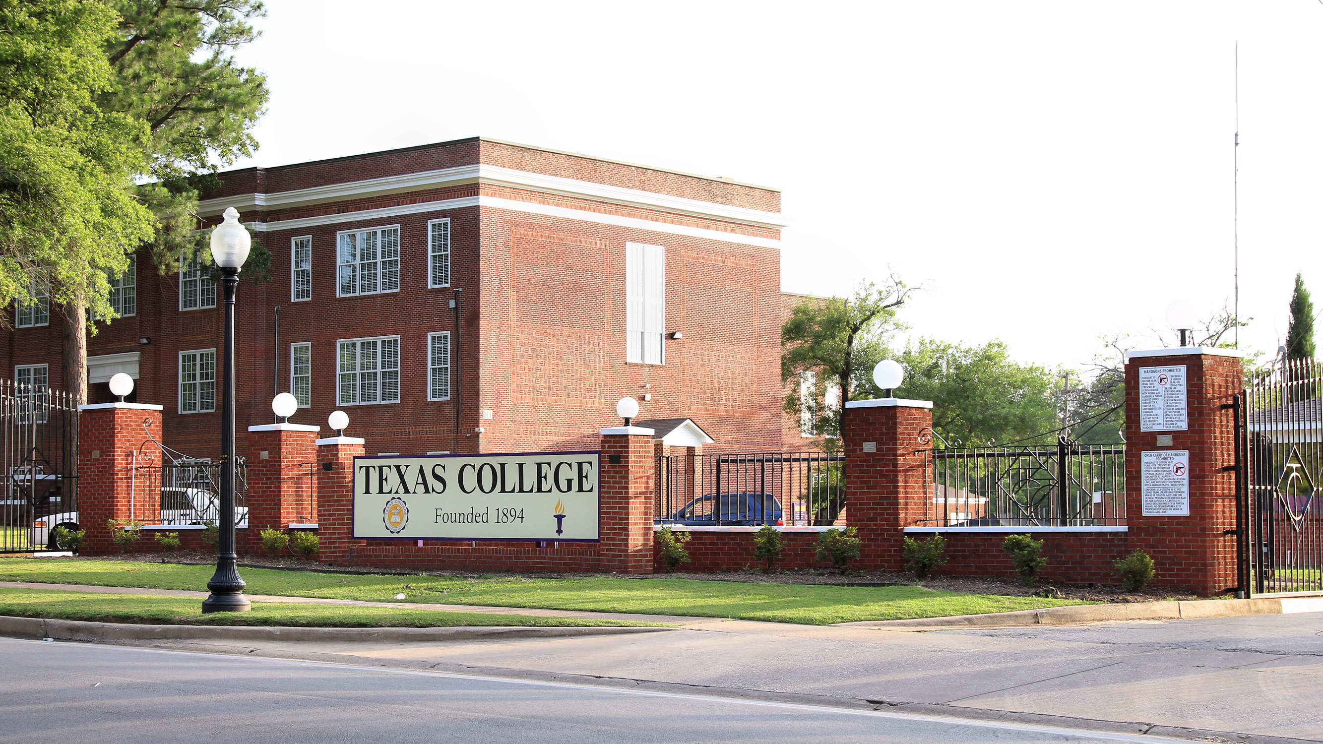 Texas College in Tyler, Texas, United States.